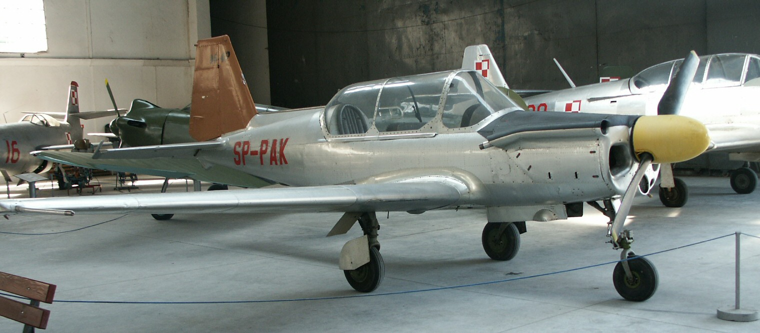 PZL-Mielec M-4 Tarpan - Polish trainer aircraft prototype, Polish Aviation Museum in Kraków